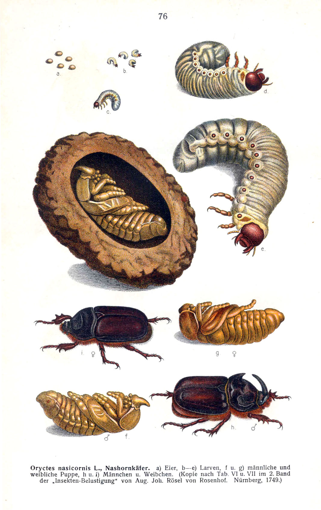 Oryctes nasicornis Lin. = Oryctes nasicornis (Linnaeus, 1758) (a: eggs, b: hatchling larva, c: young larvae, d: older larvae, e: larva before pupation, and pupa in earth hollow, f: male pupa, g: female pupa, h: adult male, dorsolateral view, i: adult female, dorsolateral view)